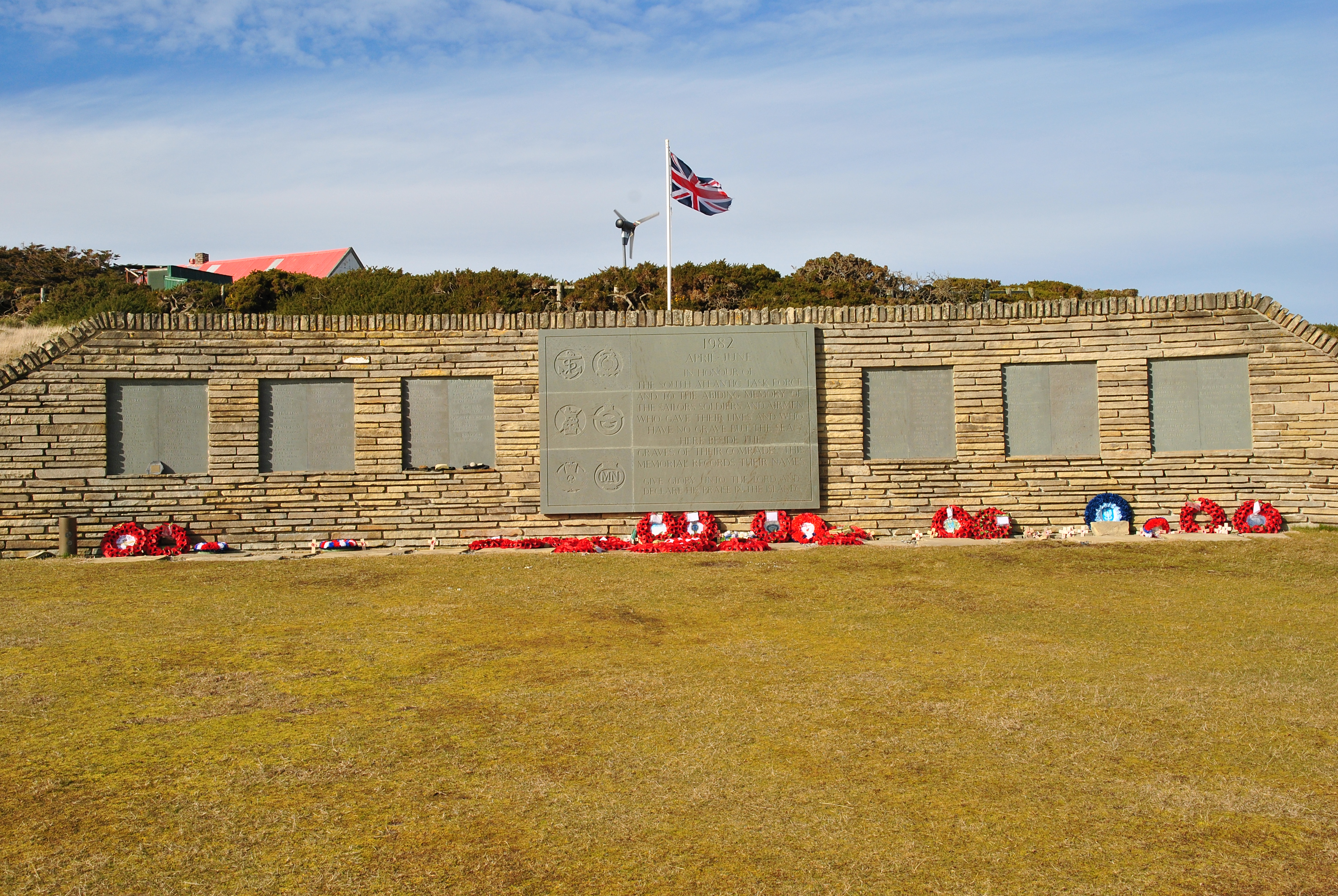 The Falklands War Memorial in San Carlos. This was a very moving experience and brings it home that the war really did happen, not just something on the TV.